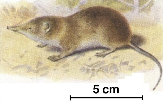 Drawing of the forest shrew Myosorex varius